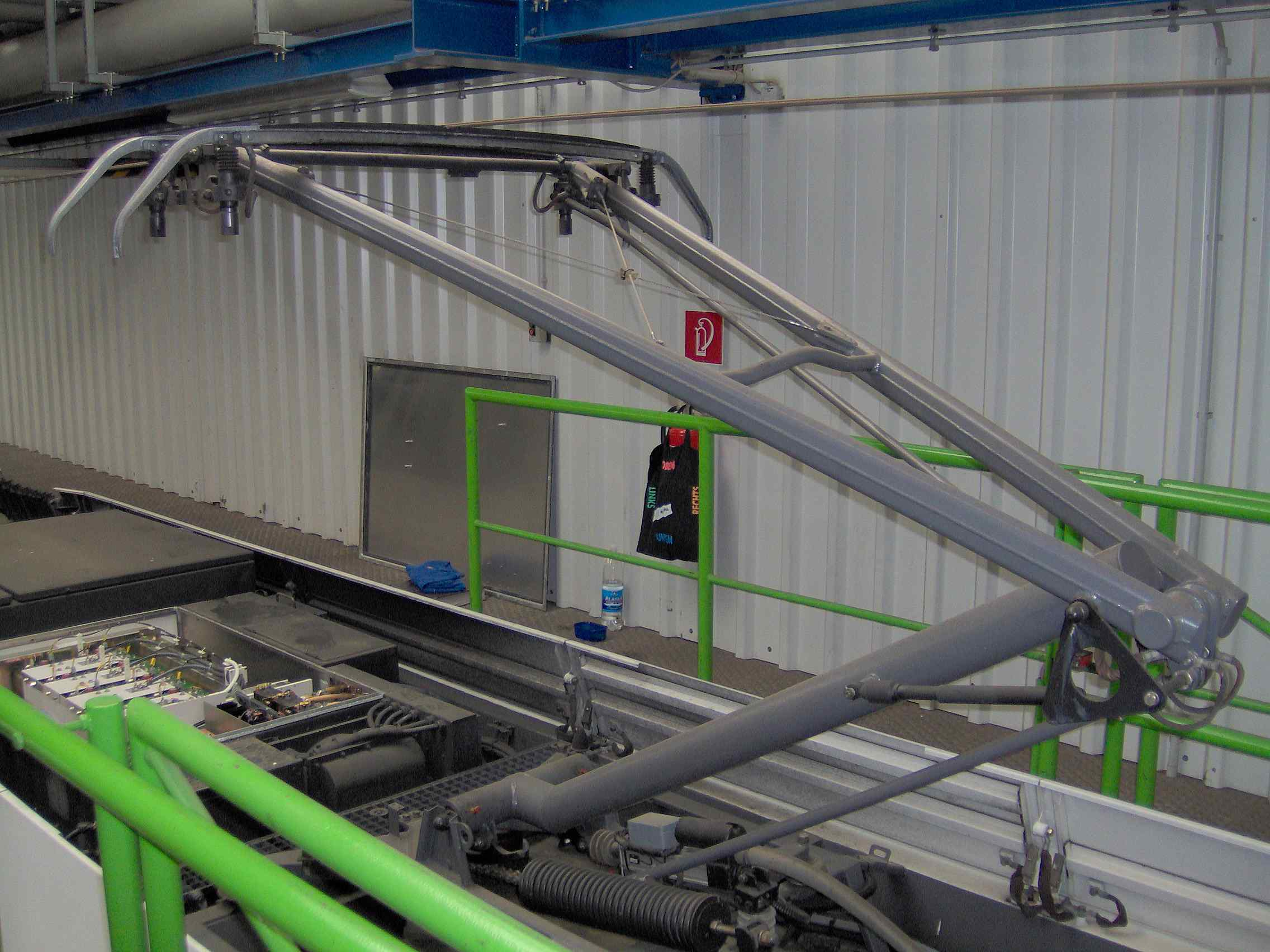 Pantograph (rail) view from above. Self taken at the tram depot in Berlin-Lichtenberg, 2006.